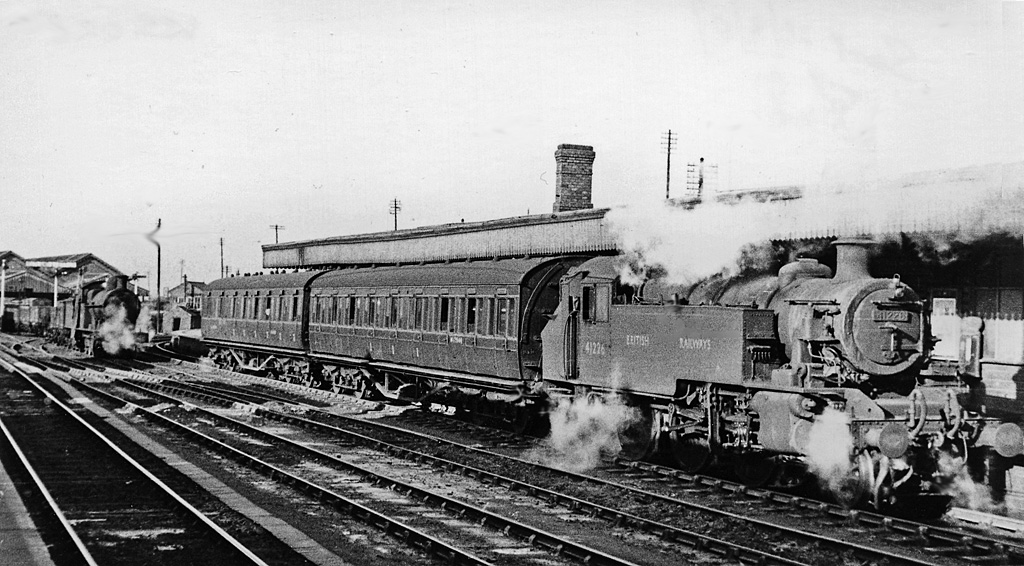 Dudley Station, with the auto-train from Dudley Port. View NE, towards Wolverhampton (left) and Walsall (and Dudley Port) (right); ex-Great Western Worcester - Kidderminster - Stourbridge Jct. - Wolverhampton line; ex-London & North Western line to Walsall, Lichfield and Rugeley. The auto-train has LMS-type Ivatt 2MT 2-6-2T No. 41226 and there is an ex-LNW 0-8-0 at work in the Goods Yard. (See also SO9490 : Dudley Station and an LNW 0-8-0).